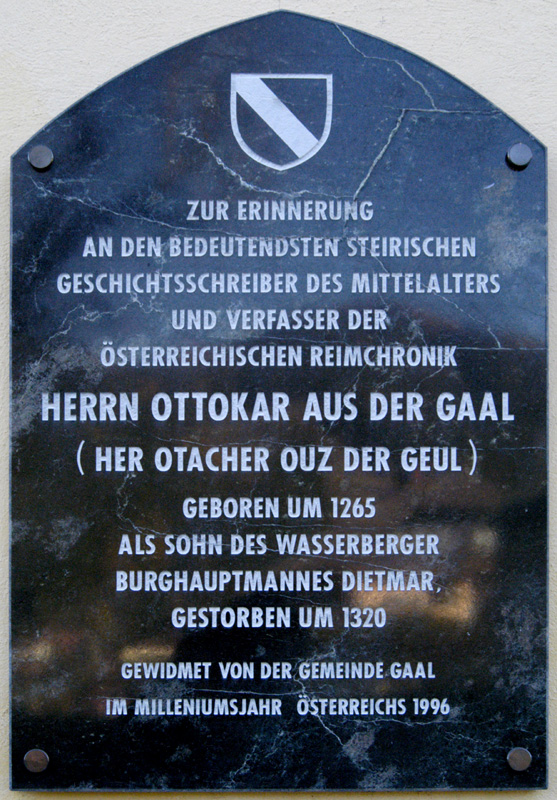 Plaque for the Styrian Reimchronisten historian Ottokar of Gaal, on the outside wall of Wasserberg Castle.